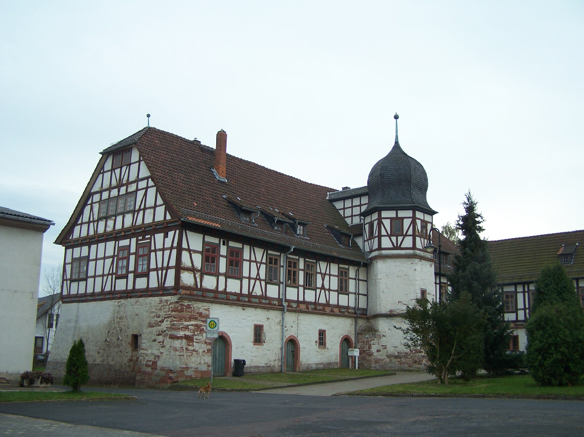 The castle in Oberellen.